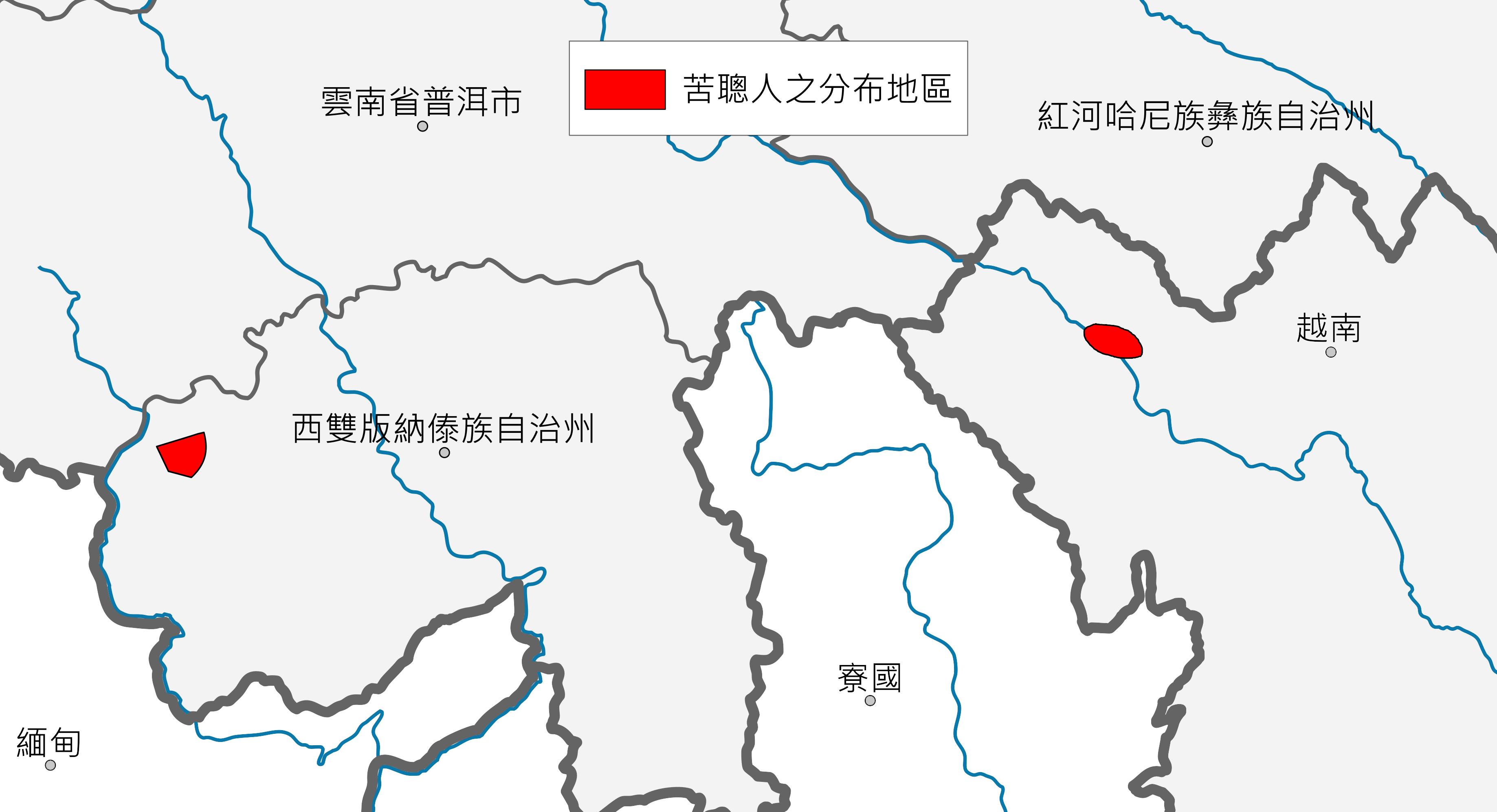 The picture is the distribution location of Kucong people.